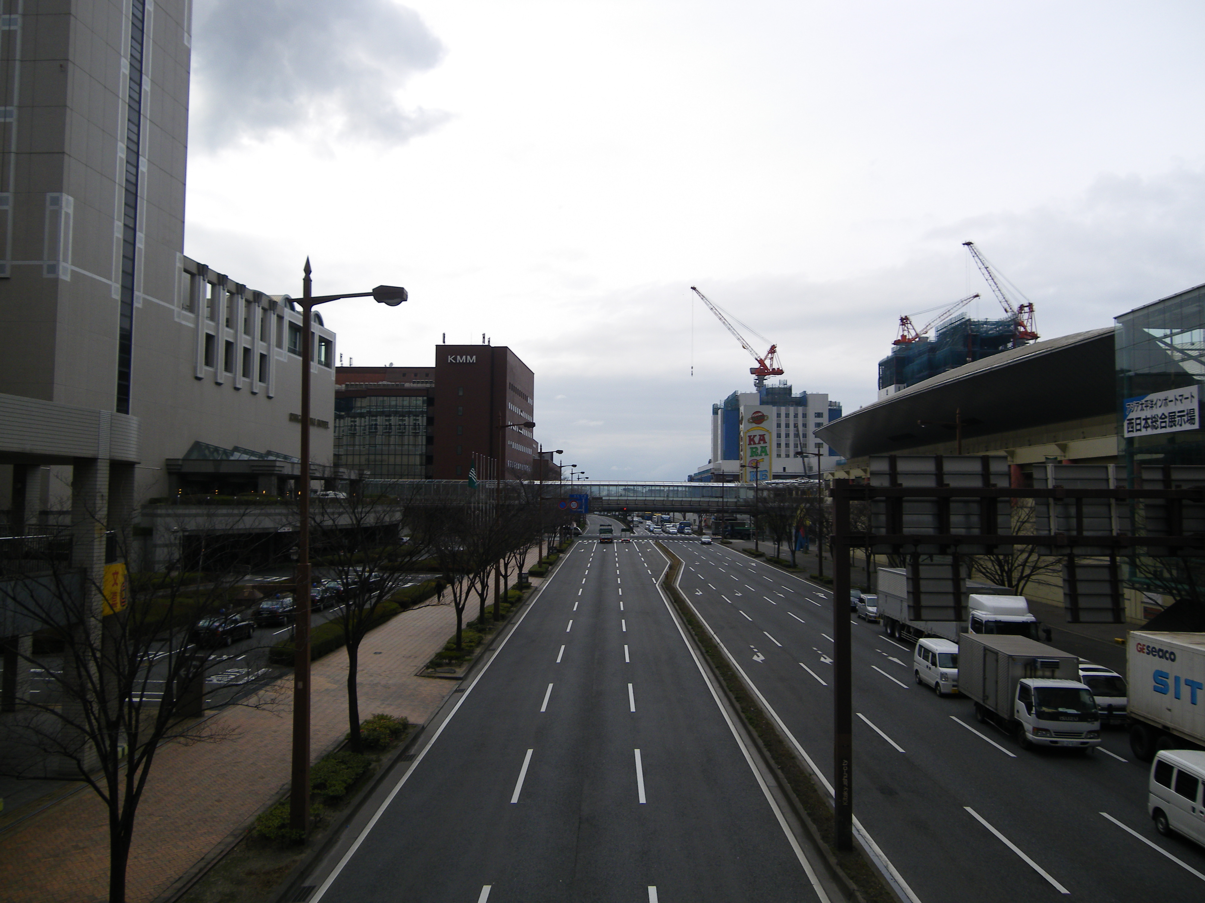 Route 199,Japan (taking a picture for Tobata in Asano,Kokura-Kita,Kitakyushu)